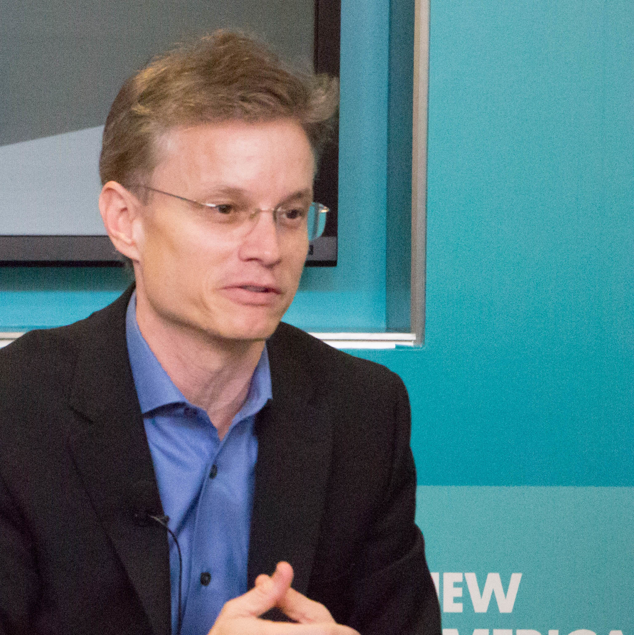 Kristin A. Goss, Associate Professor of Public Policy and Political Science, Duke University, Director, Duke in DC; She became the Kevin D. Gorter Professor of Public Policy and Political Science at Duke University. David Callahan, Founder and Editor, Inside Philanthropy, Author, The Givers: Wealth, Power, and Philanthropy in a New Gilded Age